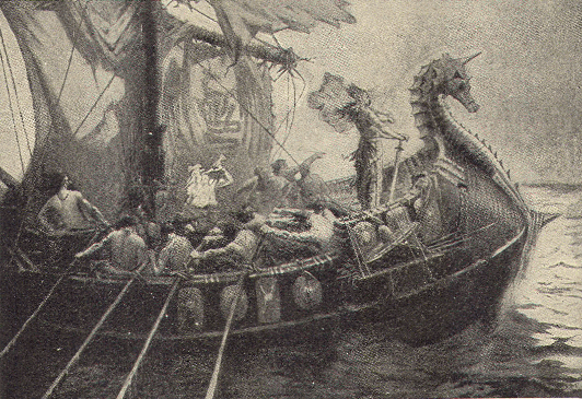 After the Roman legions had left Britain, the Jutes, led, it is said, by the brothers Hengist and Horsa, landed upon the southeastern coast and made a settlement.